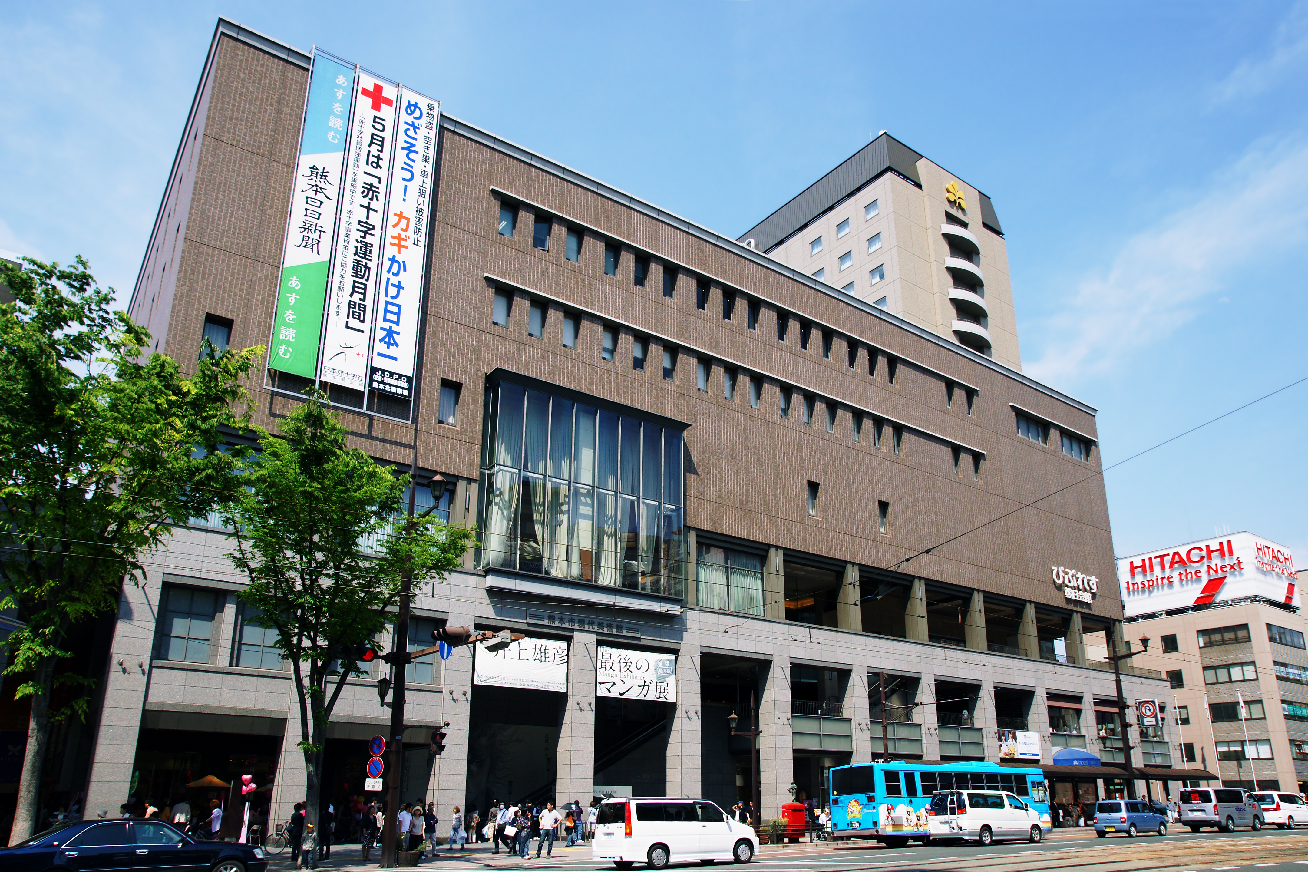 Contemporary Art Museum Kumamoto on Bipuresu kumanichi-kaikan, Kumamoto, Kumamoto prefecture, Japan